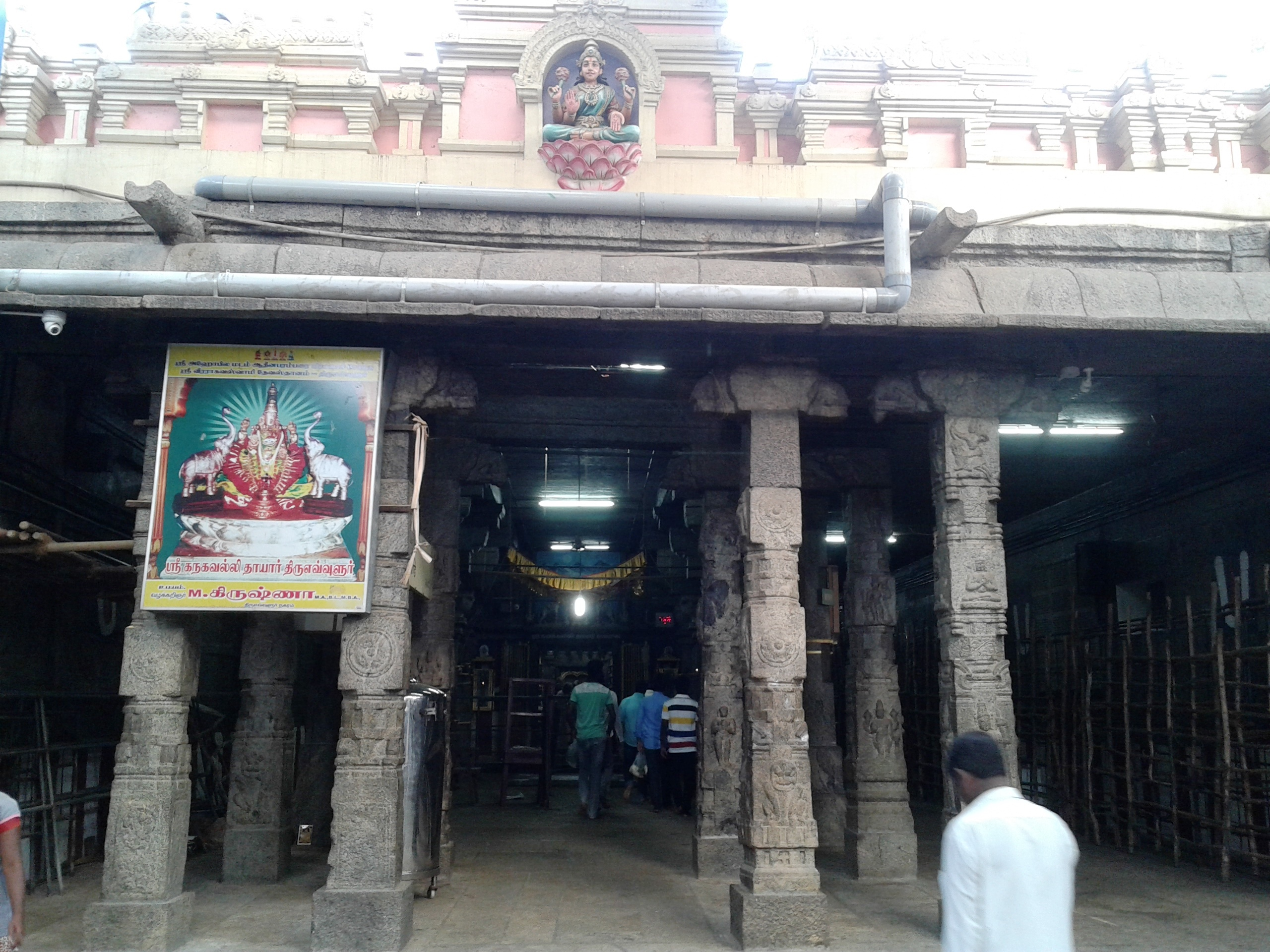 Veeraraghava Perumal Temple